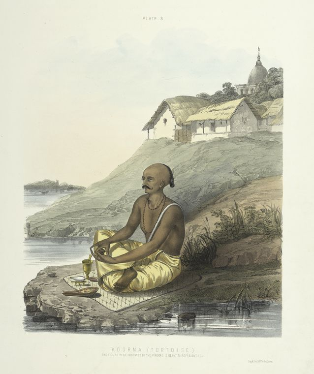 Image Title: Koorma [Kurma] (Tortoise). The figure here indicated by the fingers is meant to represent it. Creator: Day & Son -- Lithographer Additional Name(s): Belnos, S. C., Mrs. -- Artist Medium: Lithographs -- Color Item/Page/Plate: Pl. 3 Notes: Kûrma, tortoise. Note 2.) Davidson (1988) 7-12 Source: The Sundhya or the Daily Prayers of the Brahmins. Illustrated in a series of original drawings from nature, demonstrating their attitudes and different signs and figures performed by them during the Ceremonies of their Morning Devotions, Poojas, etc. Source Description: 3 v. : [24] leaves of col. plates. ; 58 x 75 cm. Location: Stephen A. Schwarzman Building / Asian and Middle Eastern Division Catalog Call Number: *OLV+++ (Belnos, S. C. Sundhya ) Digital ID: 481288 Record ID: 103573 Digital Item Published: 2-3-2004; updated 3-25-2011